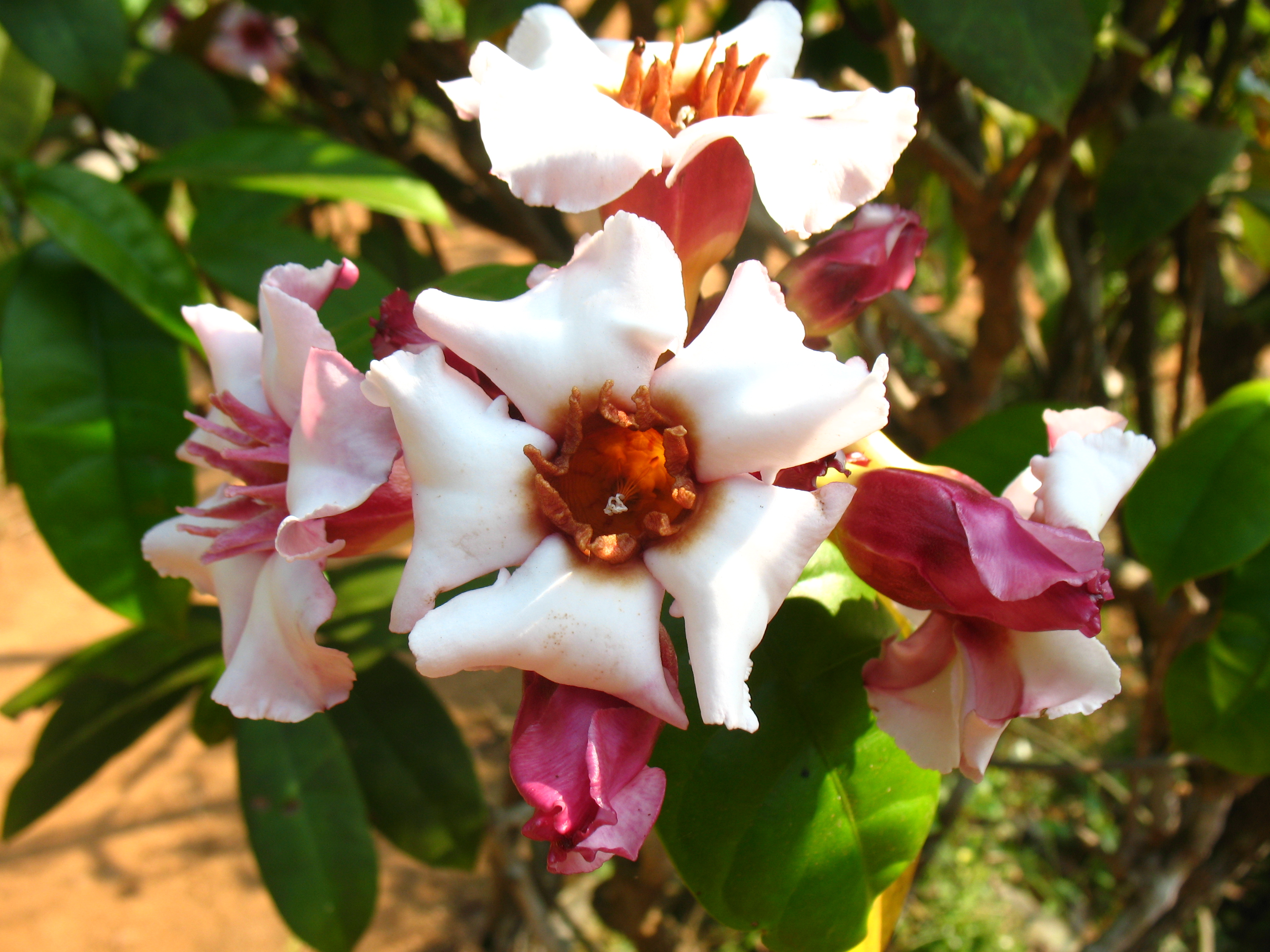 Climbing Oleander, Rose Allamanda (Botanical name: Strophanthus gratus)